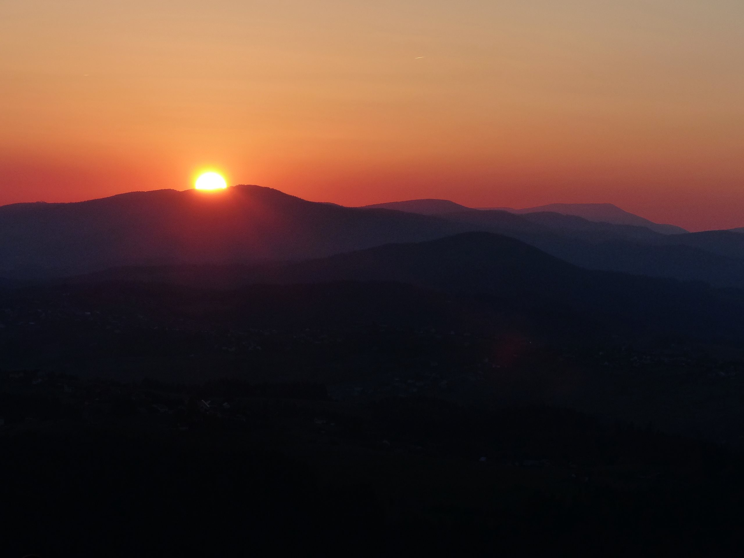 Sunset over Velky Polom seen on Ochodzita in October. The summit is accessible in 10 minutes from the road, so one can safely return back to the car when it's still bright outside.